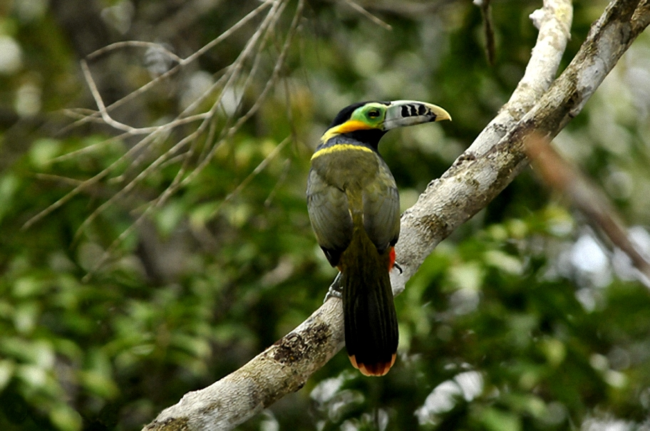 A male Spot-billed Toucanet.